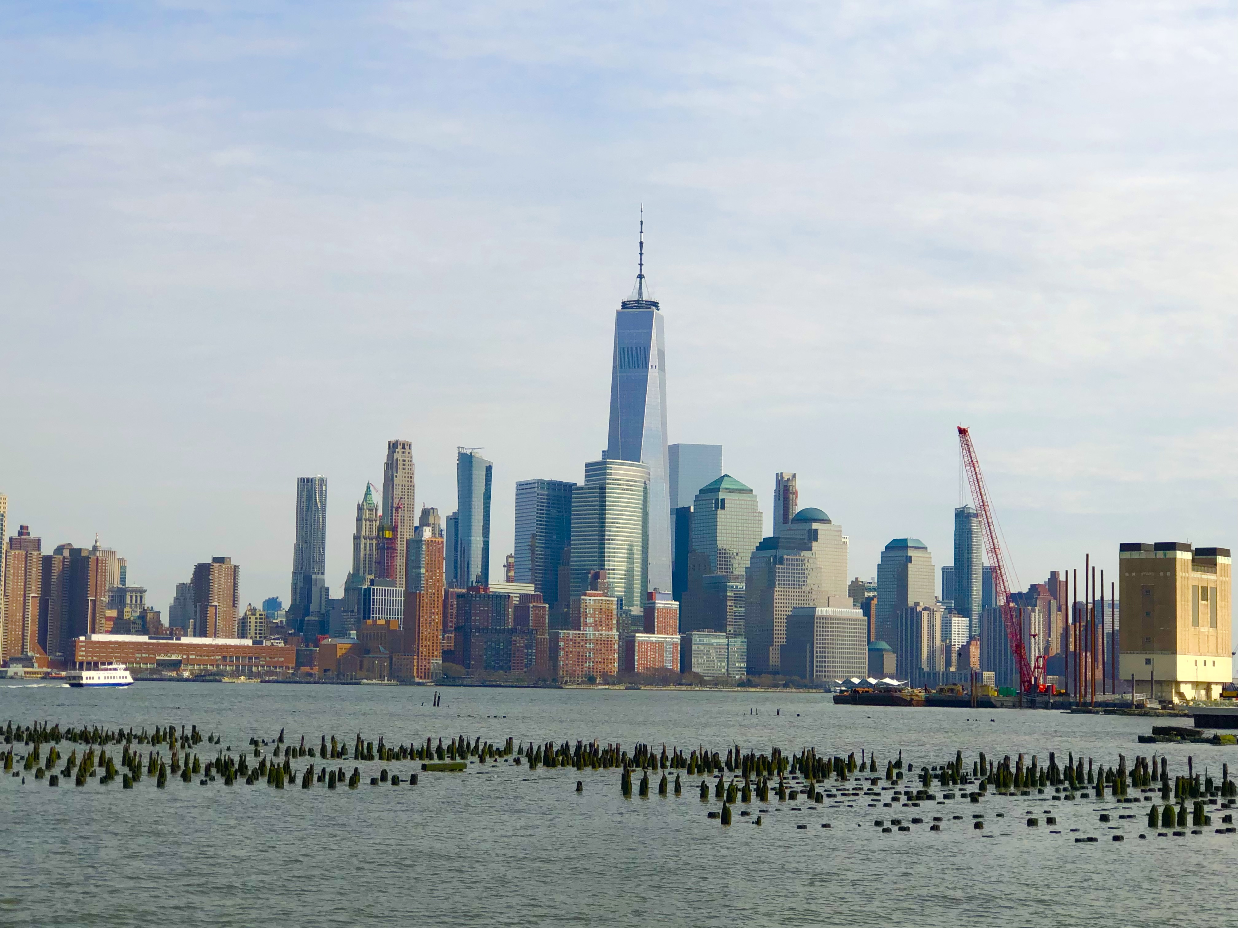 Downtown Manhattan skyline in April 2019.